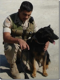 Sailor Joseph Rocha works with a Military Working Dog in Bahrain